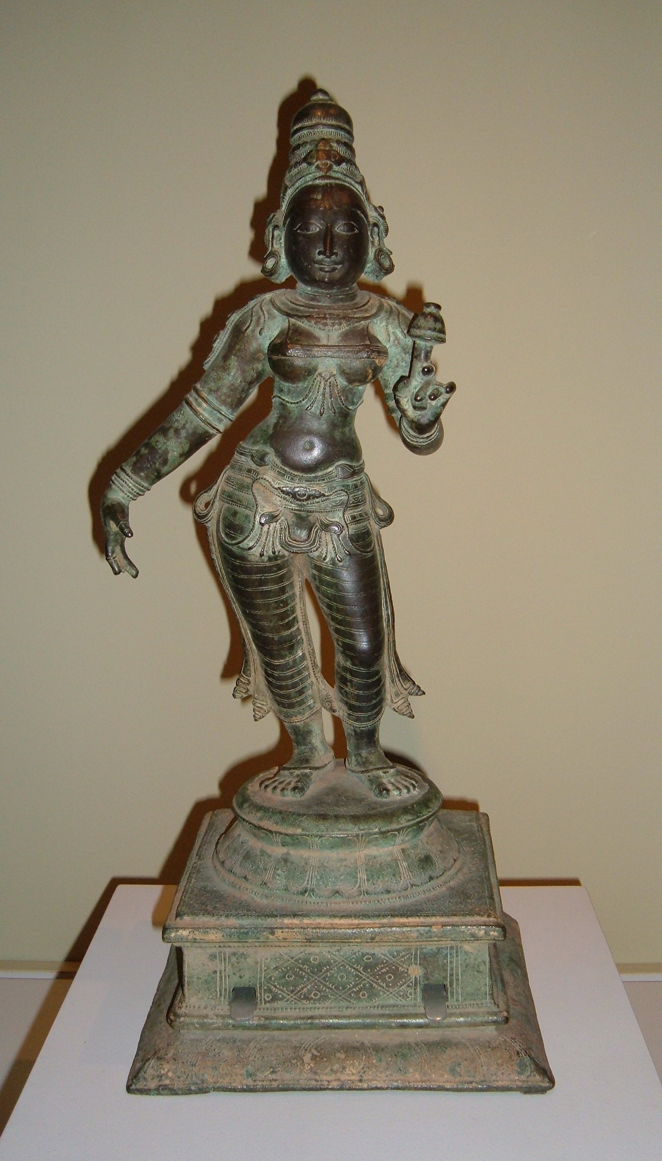 Sculpture of a bronze Sri Devy (17th century) from the Vijayanagar period on display at the Iris & B. Gerald Cantor Center for Visual Arts on the Stanford University campus in Stanford, California. 1956.19